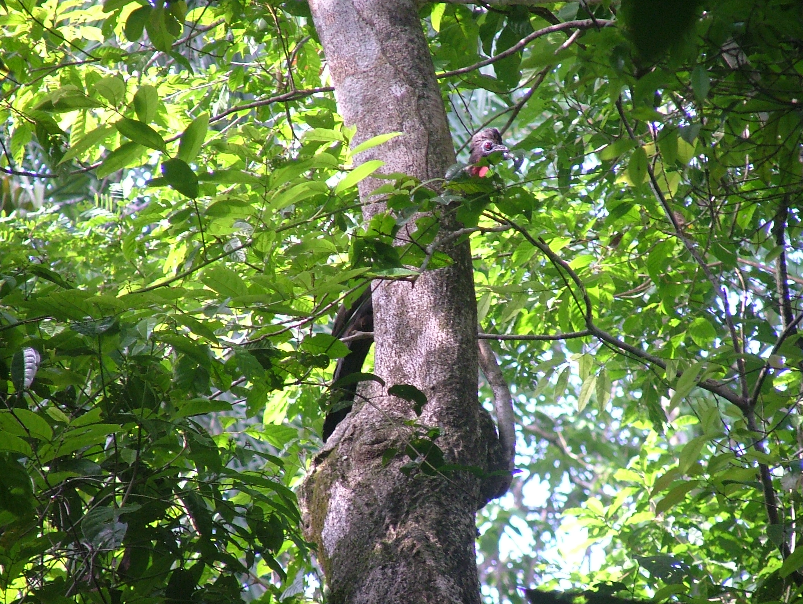 A photograph of a Crested Guan Penelope purpurascens in the wild. Taken on Barro Colorado Island, Gatun Lake, Panama.